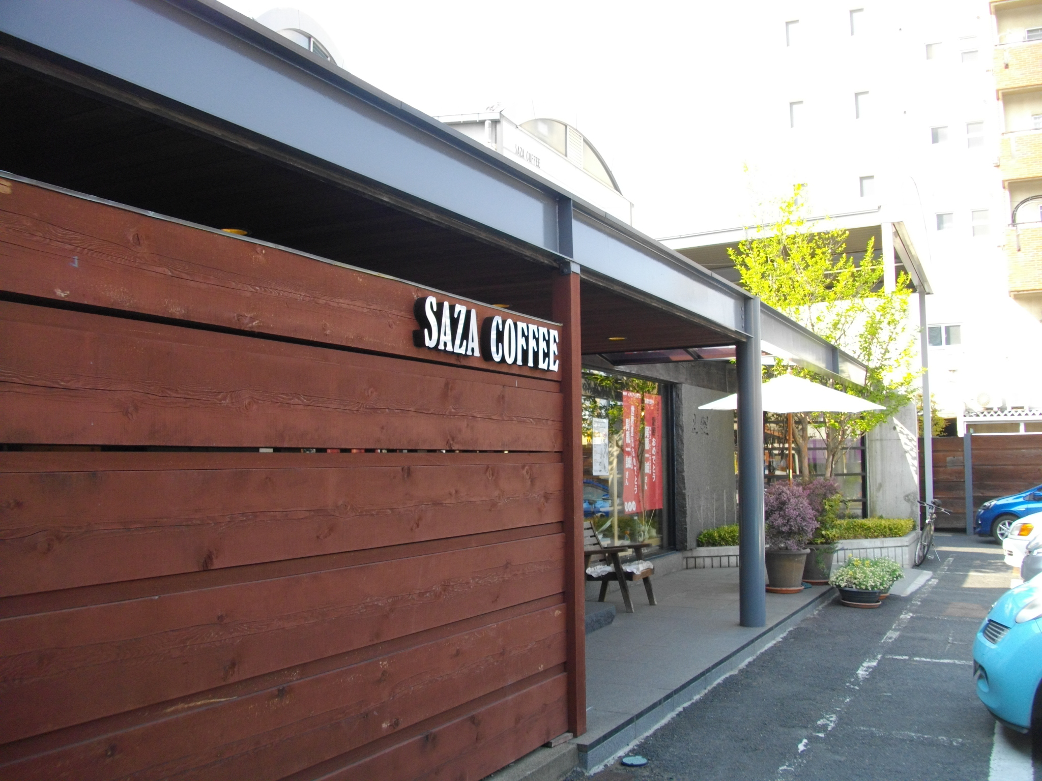 Saza Coffee Head Shop